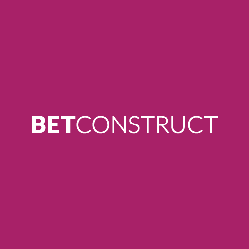 Bet Logo